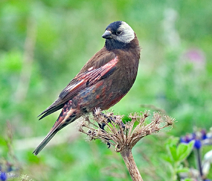 Gray-crowned Rosy-Finch (Leucosticte tephrocotis), near King Eider Hotel, St. Paul Island, Alaska